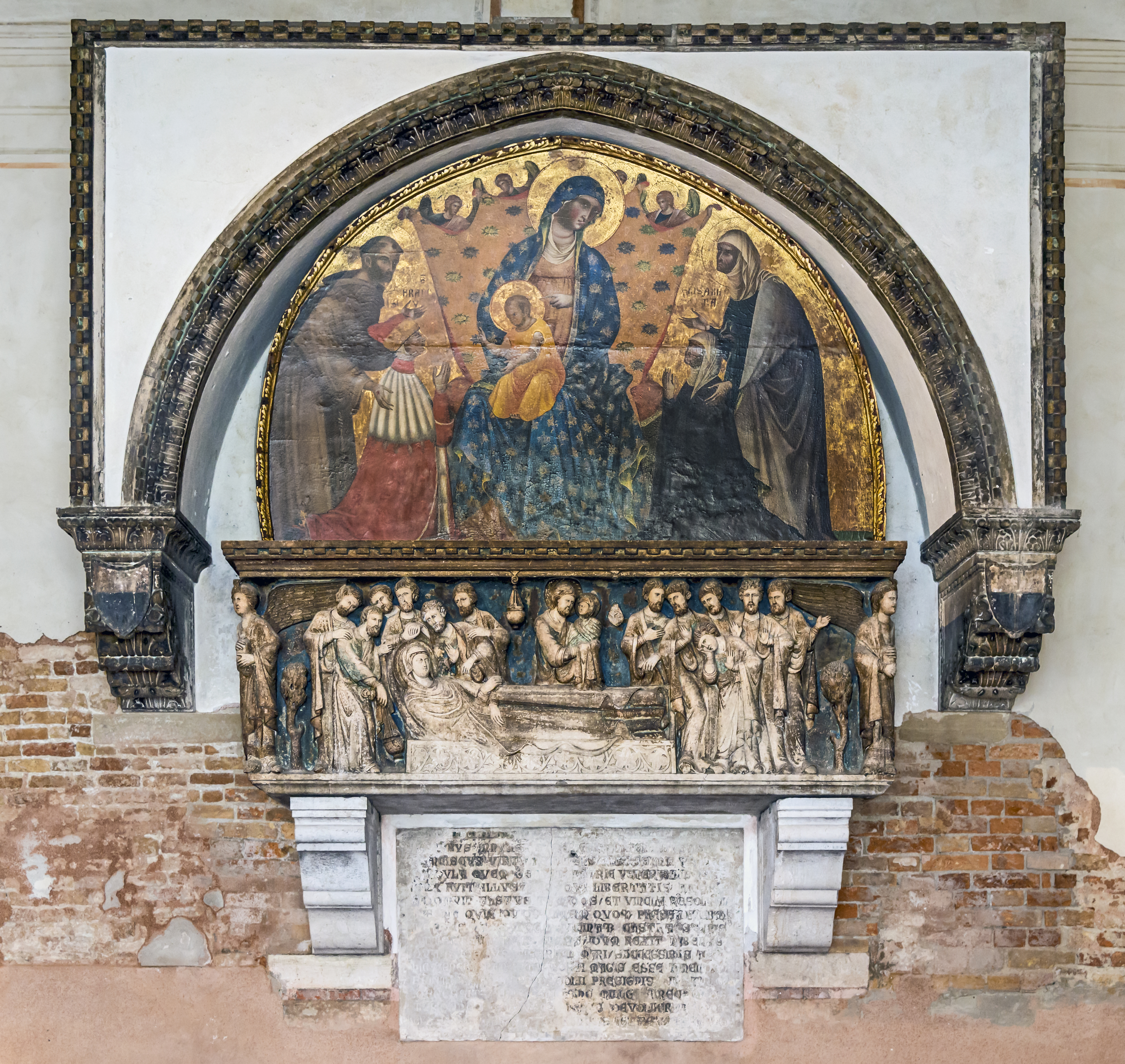 Santa Maria Gloriosa dei Frari, Chapter Room - Monument to Francesco Dandolo. The sarcophagus was once entirely golden. The relief represents a Dormition of the Virgin surrounded by apostles. Painting by Paolo Veneziano : Doge Francesco Dandolo and his Wife Presented to the Madonna. Oil on panel 1339, below doge sarcophagus.